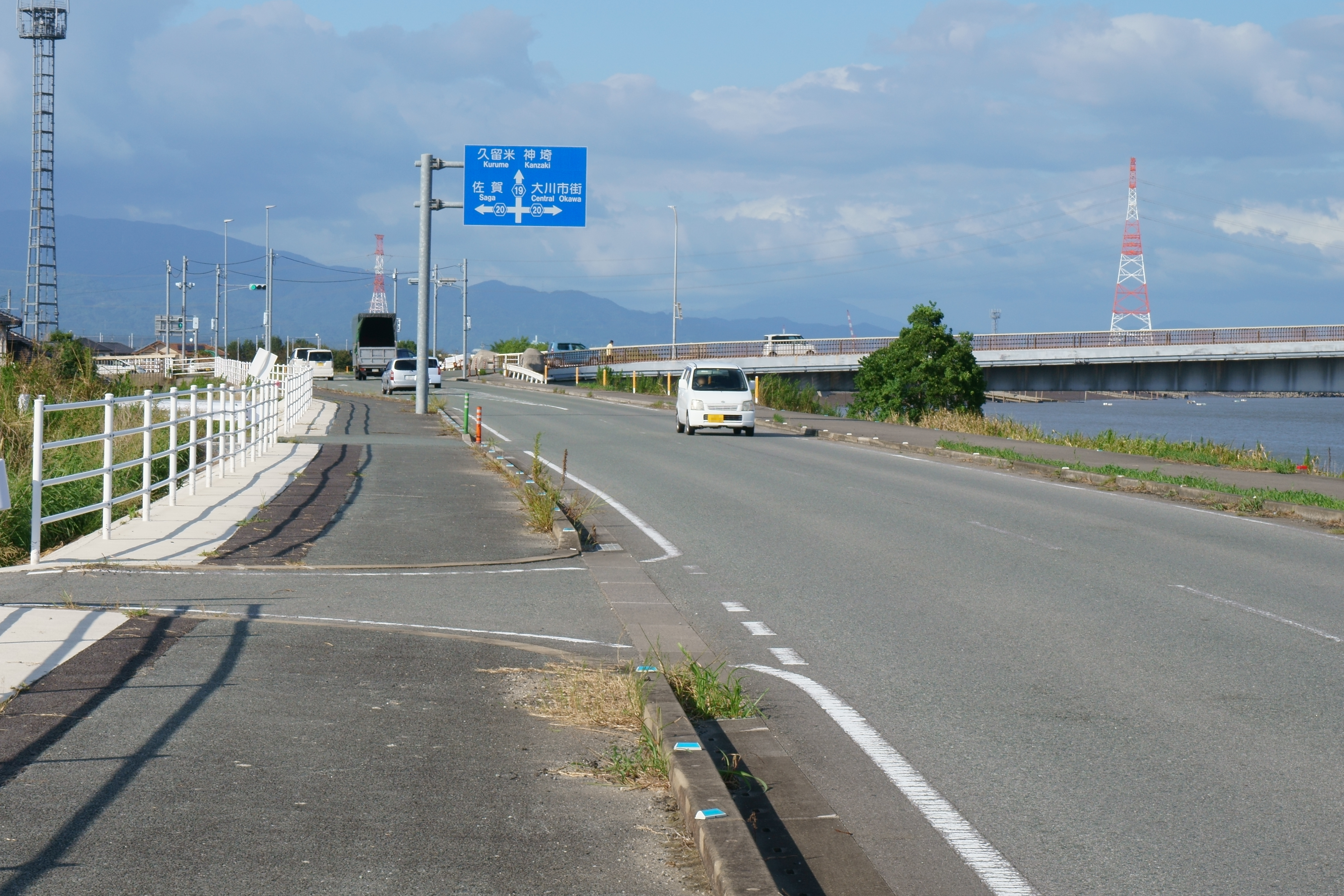 Saga Prefectural and Fukuoka Prefectural Road No.19 in Dokaijima, Okawa city, Fukuoka prefecture.